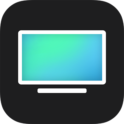 TV app on iOS circa 2016